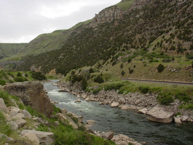 A view of the Wind River Canyon from US-20.